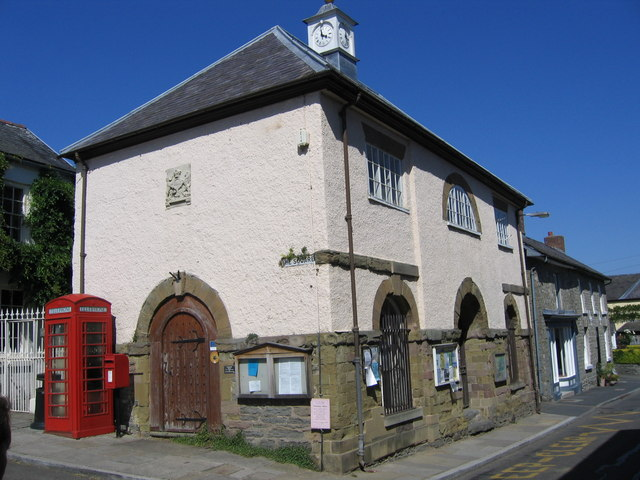 Clun Town Hall and Museum Clun Museum was opened in the Town Hall over 70 years ago and houses a collection of prehistoric tools dating as far back as 4000 years.